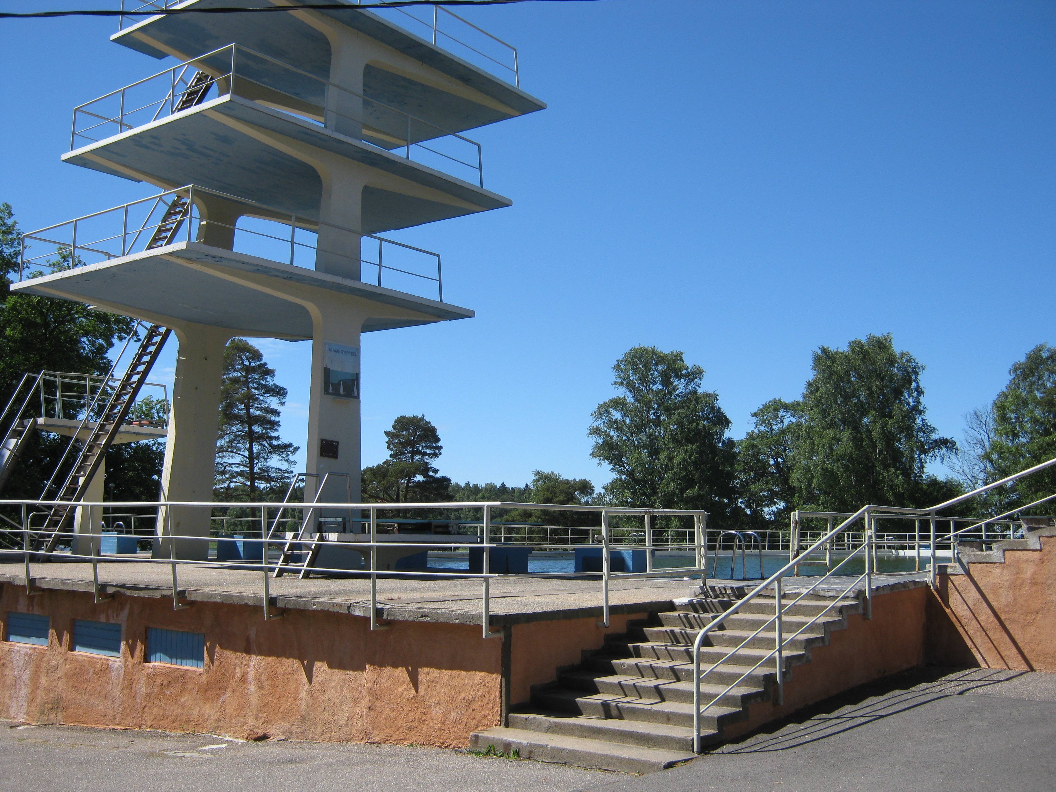 Outdoor swimming pool, Rauma, Finland.